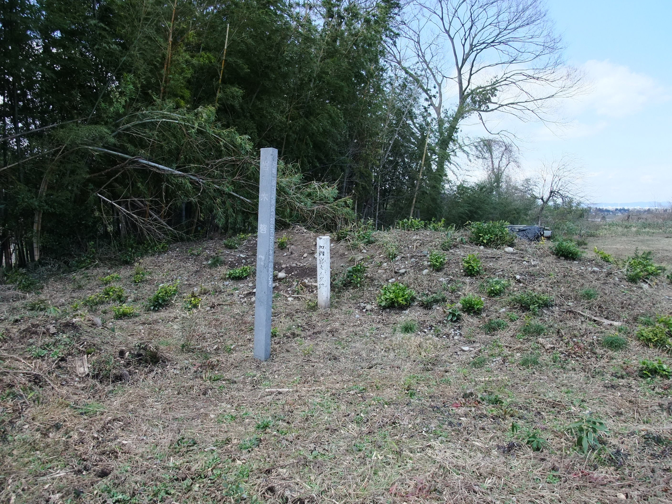 photo of iwaki castle (Toyama japan)